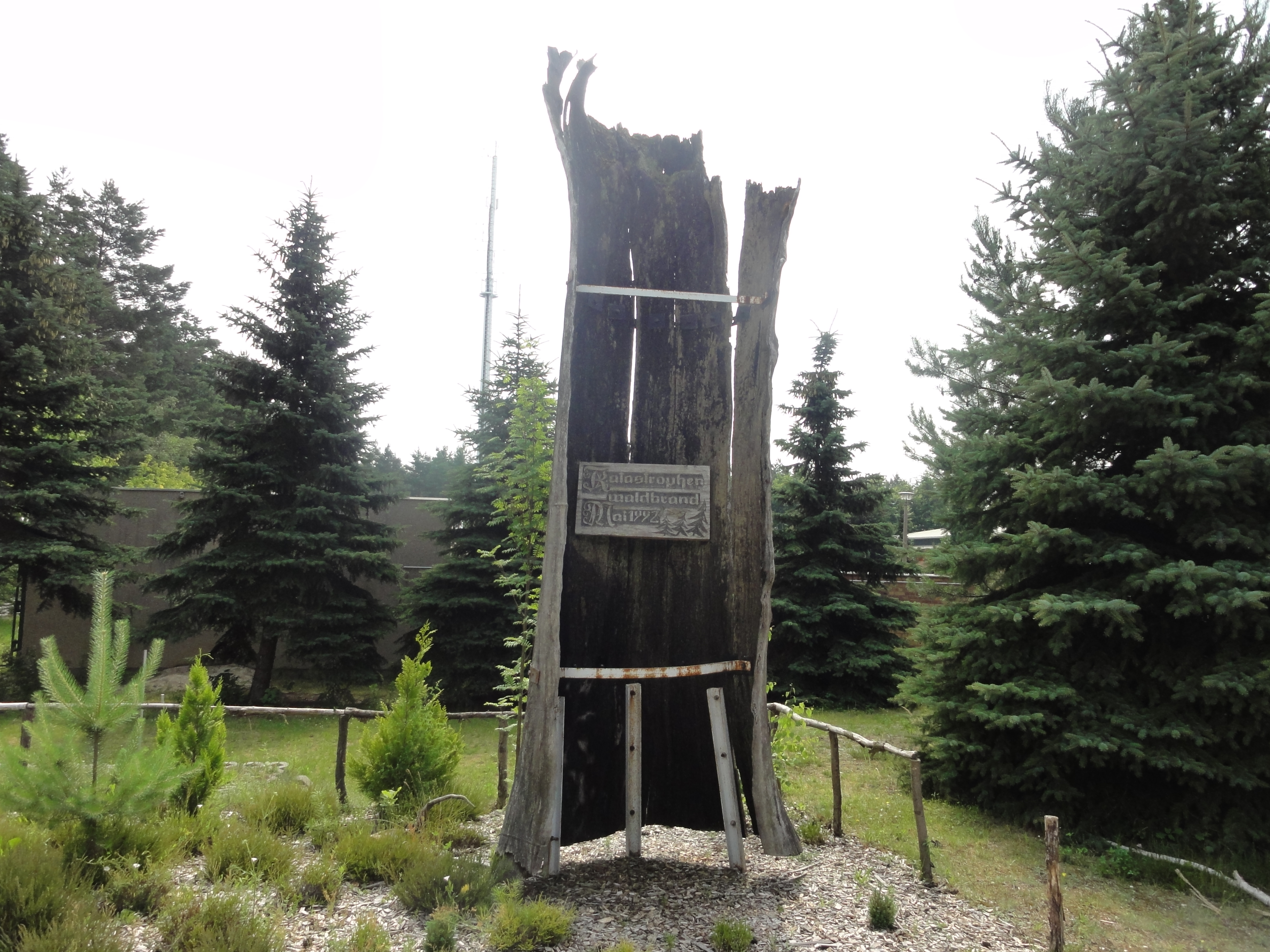 "Forest fire monument, in memory of the forest fire of May 1992, in its fight against the firefighter Thomas Jung died"